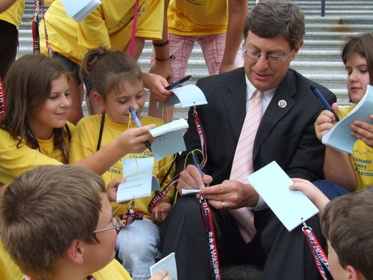 Visiting from Boyle County: Congressman Chandler signing autographs for students visiting from Perryville Elementary School on their recent visit to Washington, D.C.